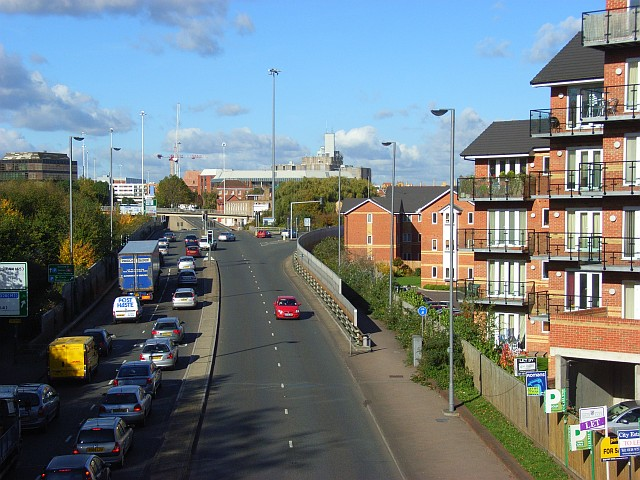 The A33 Relief Road in Reading, with queuing traffic as it reaches its junction with the Inner Distribution Road, the A329. This road has replaced Basingstoke Road, now the B3031, as the main route into the town from the south. The road here follows the line of the old railway branch to Coley, which served sidings situated on the site of the current A33/A329 junction.